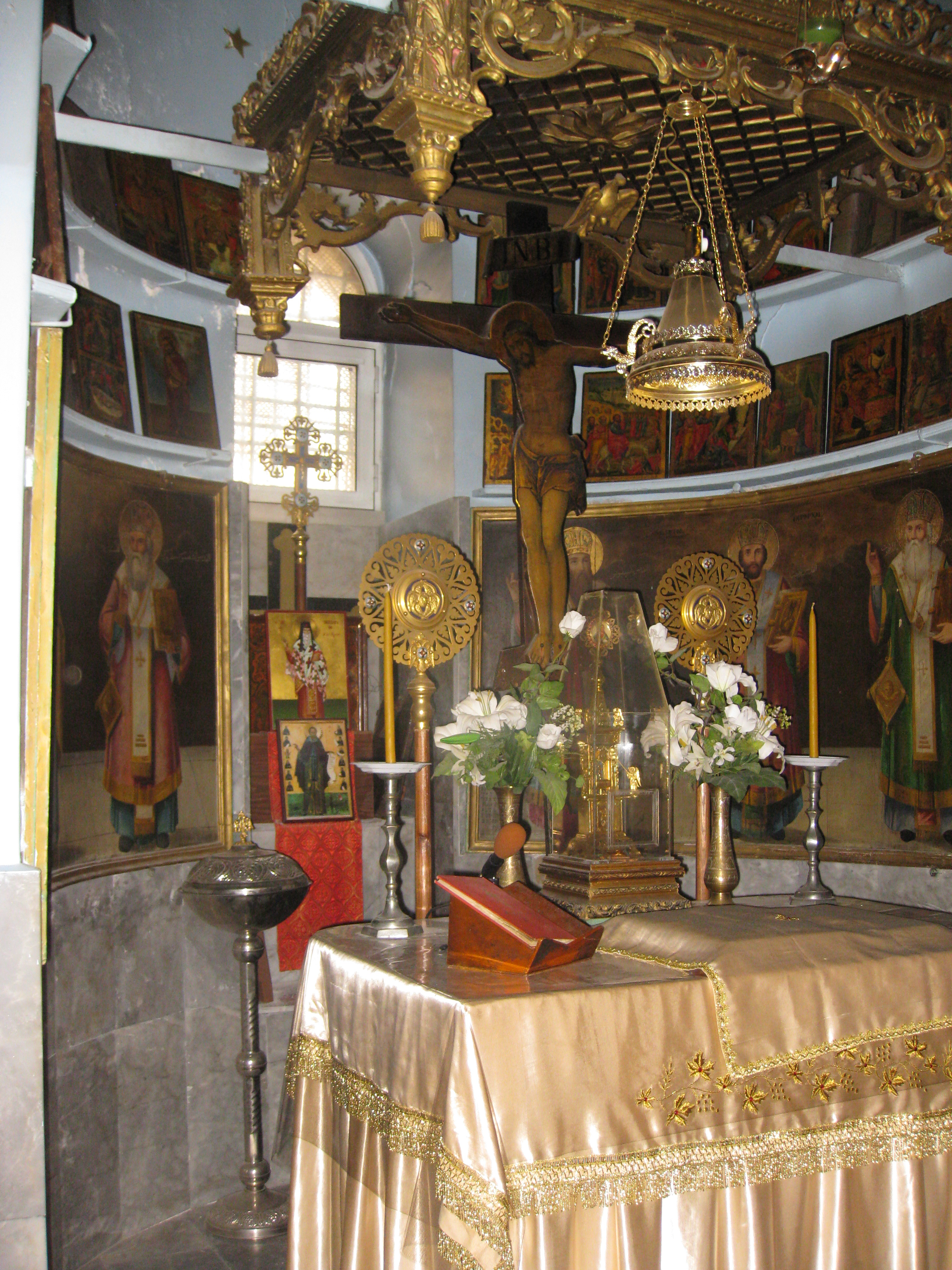 Chapel of St. James, in the Church of the Holy Seplucher